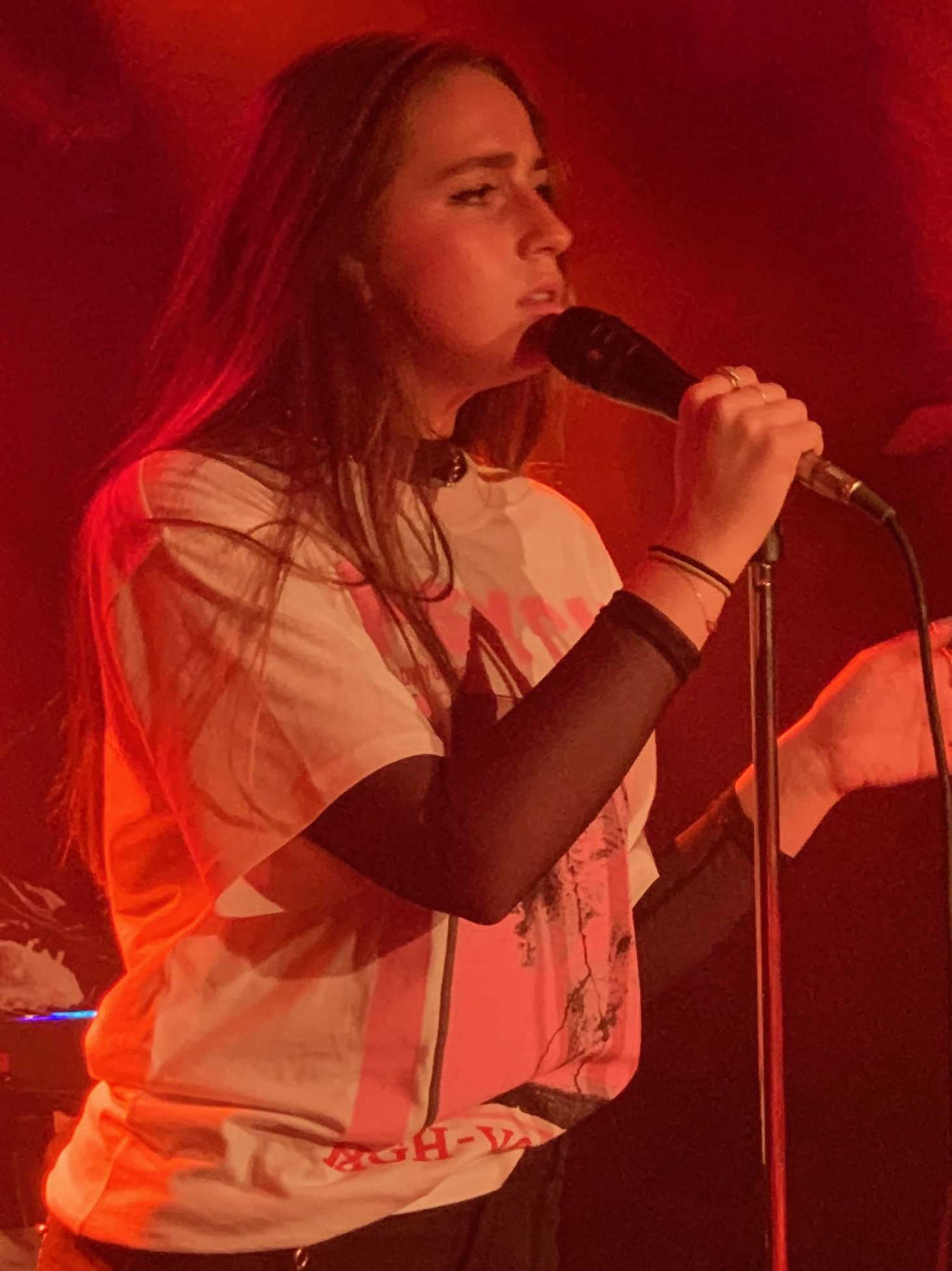 Tate McRae, Berlin, 1st February 2020